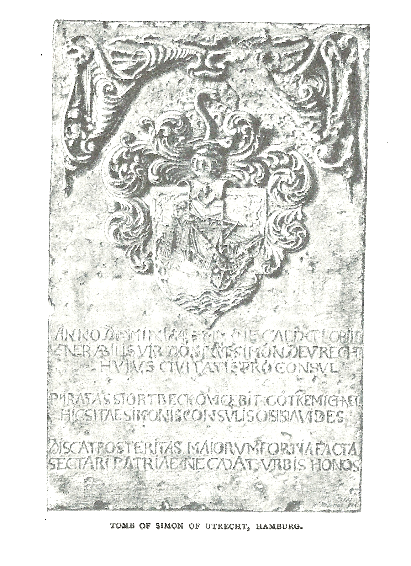 1889 Illustration of Simon of Utrecht memorial stone1889